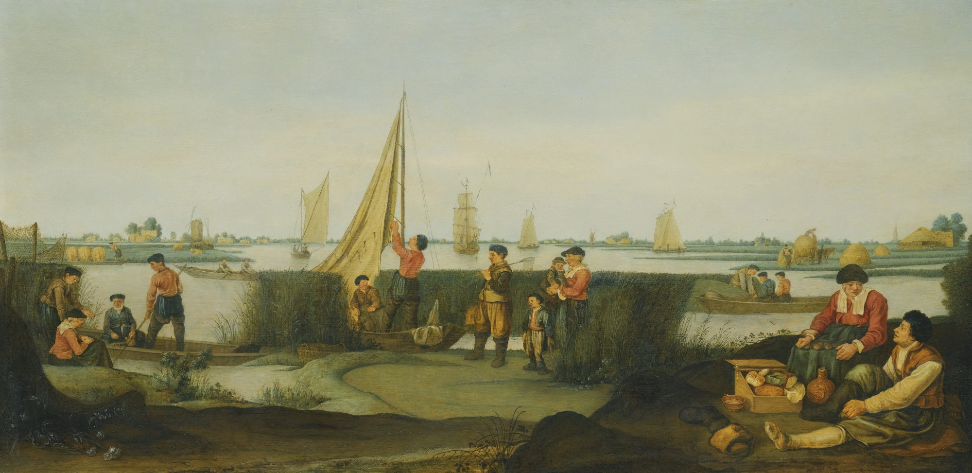 Fishermen on the Banks of a River Estuary oil on oak panel painting by Arent Arentsz. called Cabel